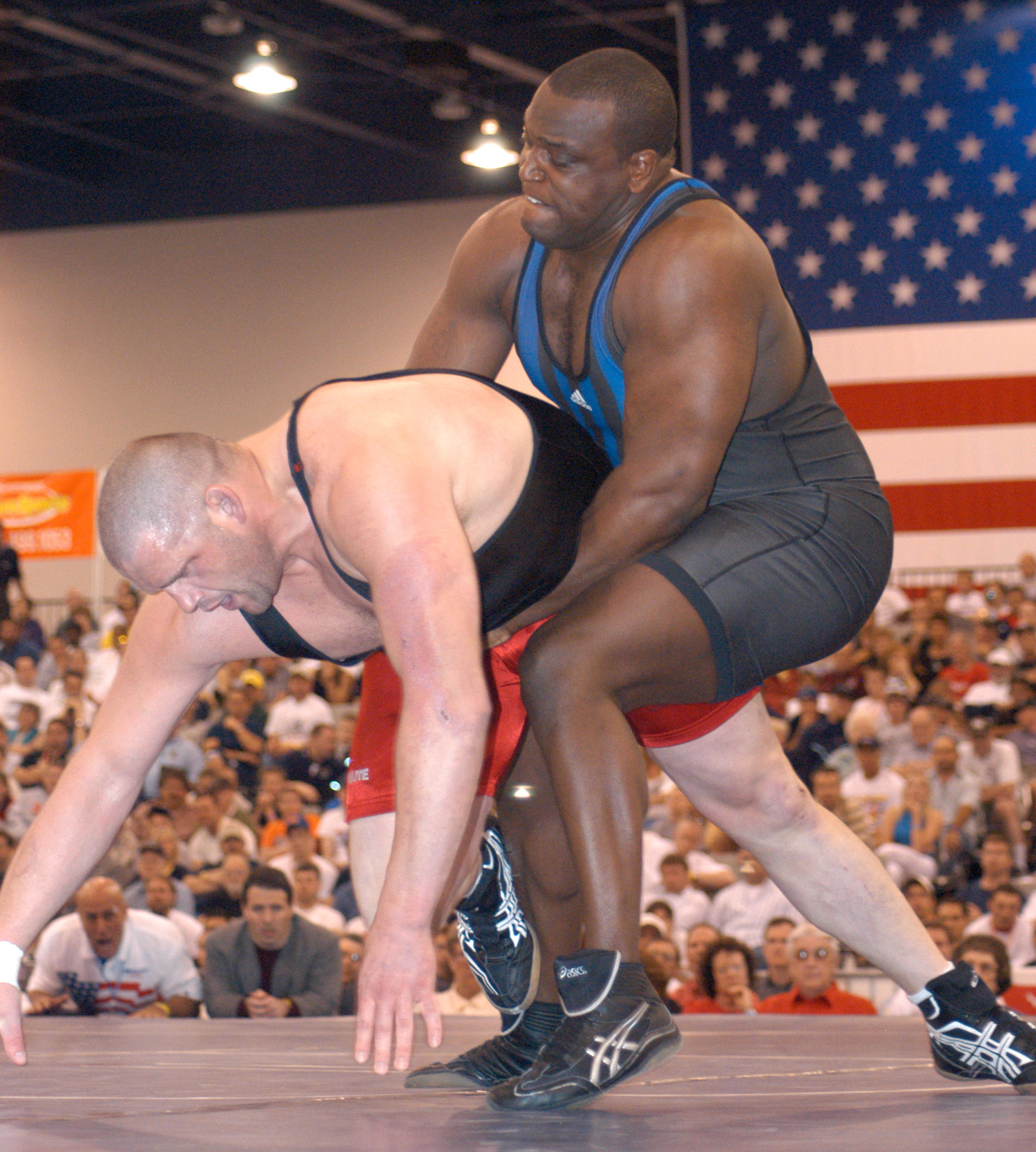 April 13, 2004 Sgt. Dremiel Byers, a member of the U.S. Army World Class Athlete Program at Fort Carson, Colo., lifts Olympic gold medalist Rulon Gardner en route to a 3-1 victory in the 264.5-pound Greco-Roman finale of the 2004 U.S. National Wrestling Championships at Las Vegas Convention Center.